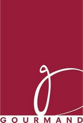 Gourmand Logo